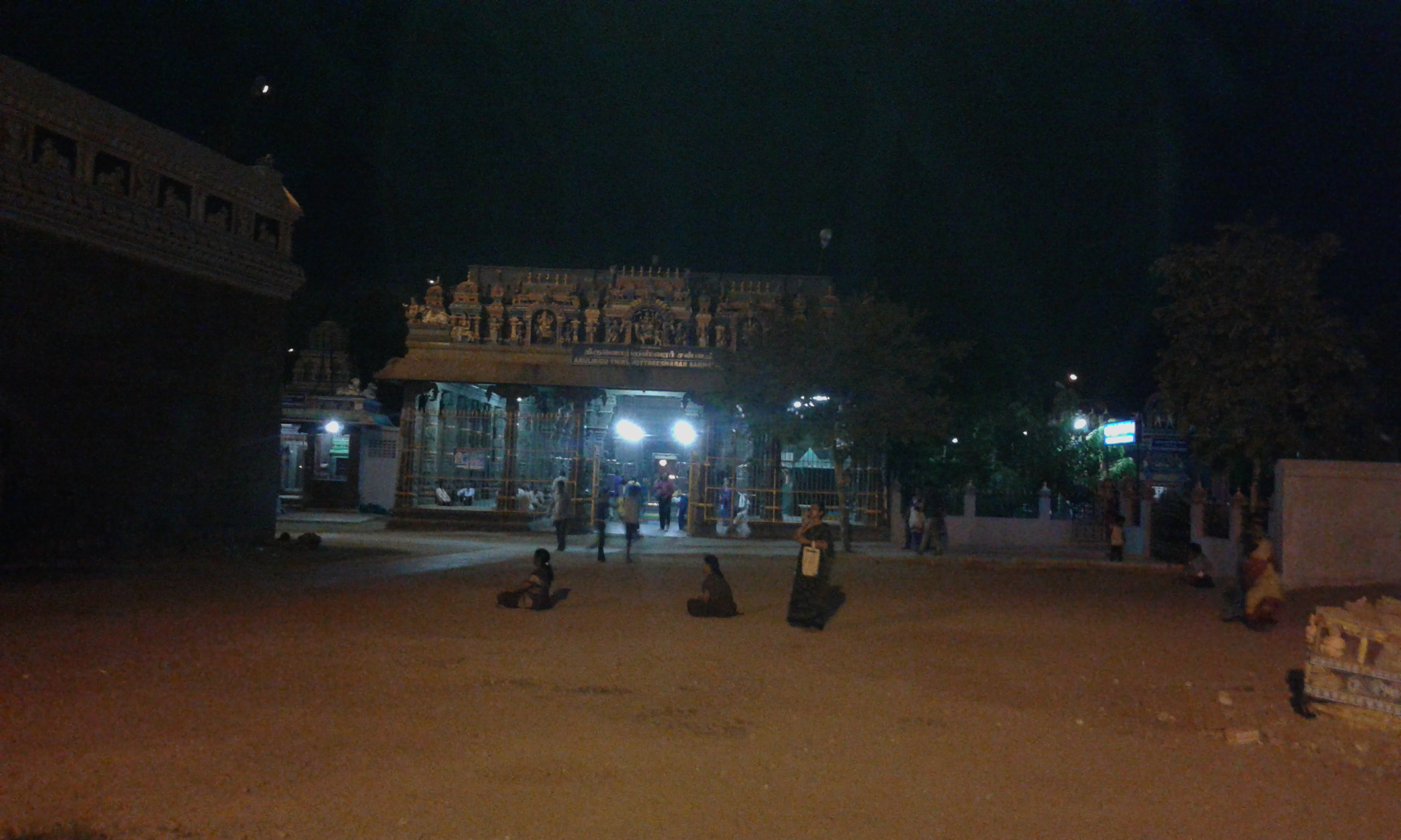 Thiuvotriyur